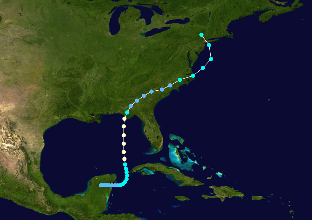 Hurricane Agnes (1972) track. Uses the color scheme from the Saffir-Simpson Hurricane Scale.